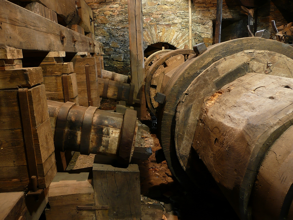 Olbernhau-Grünthal, historic copperworks, water-powered trip hammers.